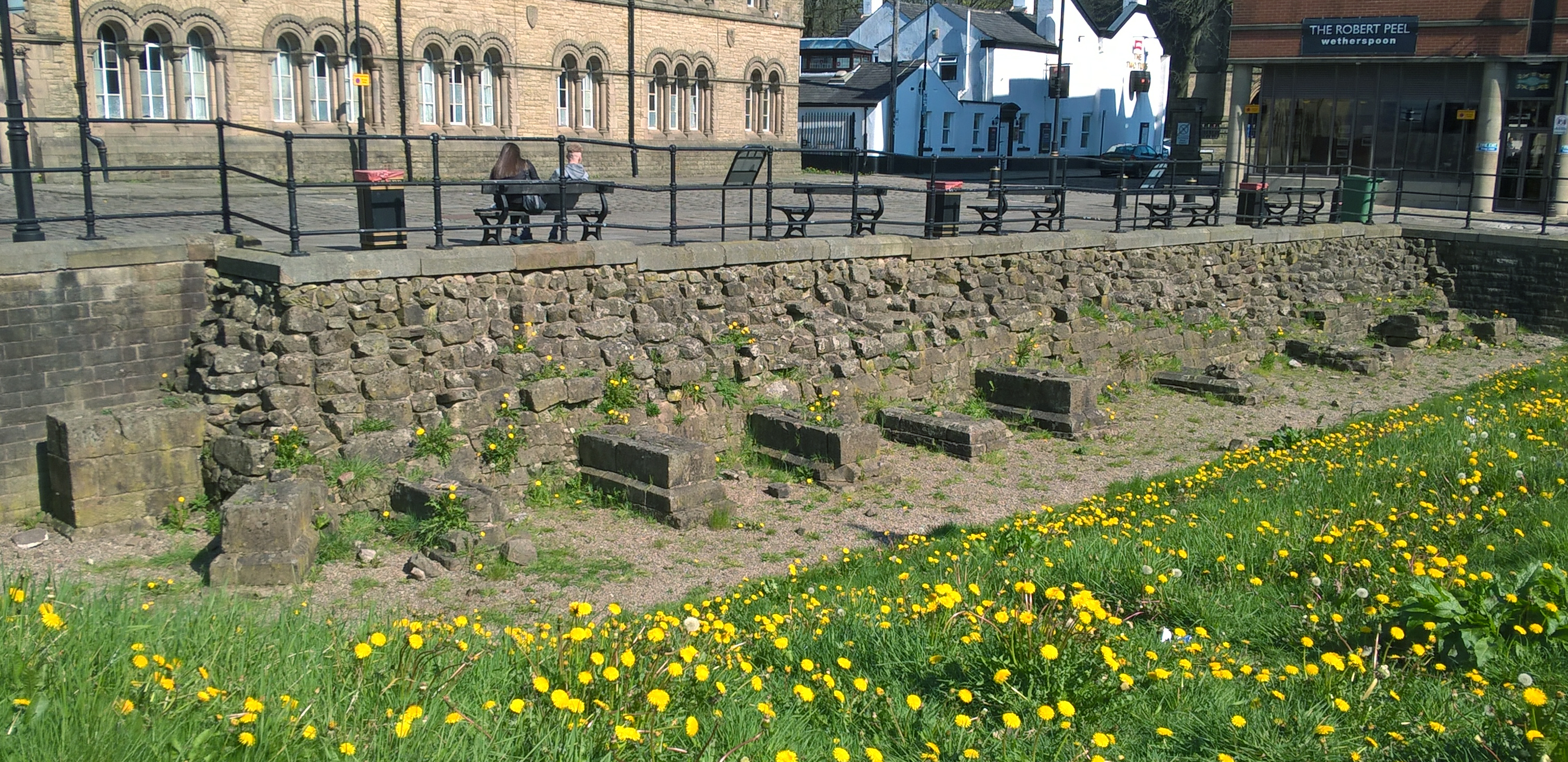 Part of the inner wall of the moat of Bury Castle, with buttresses. Constructed about 1480. Excavated and restored 1999. Scheduled Ancient Monument.